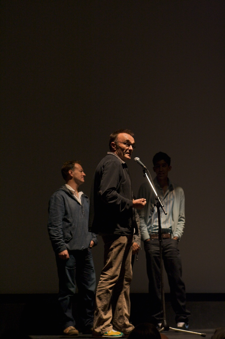 TIFF 2008 Slumdog Millionaire screening at Ryerson Danny Boyle Simon Beaufoy Freida Pinto Dev Patel